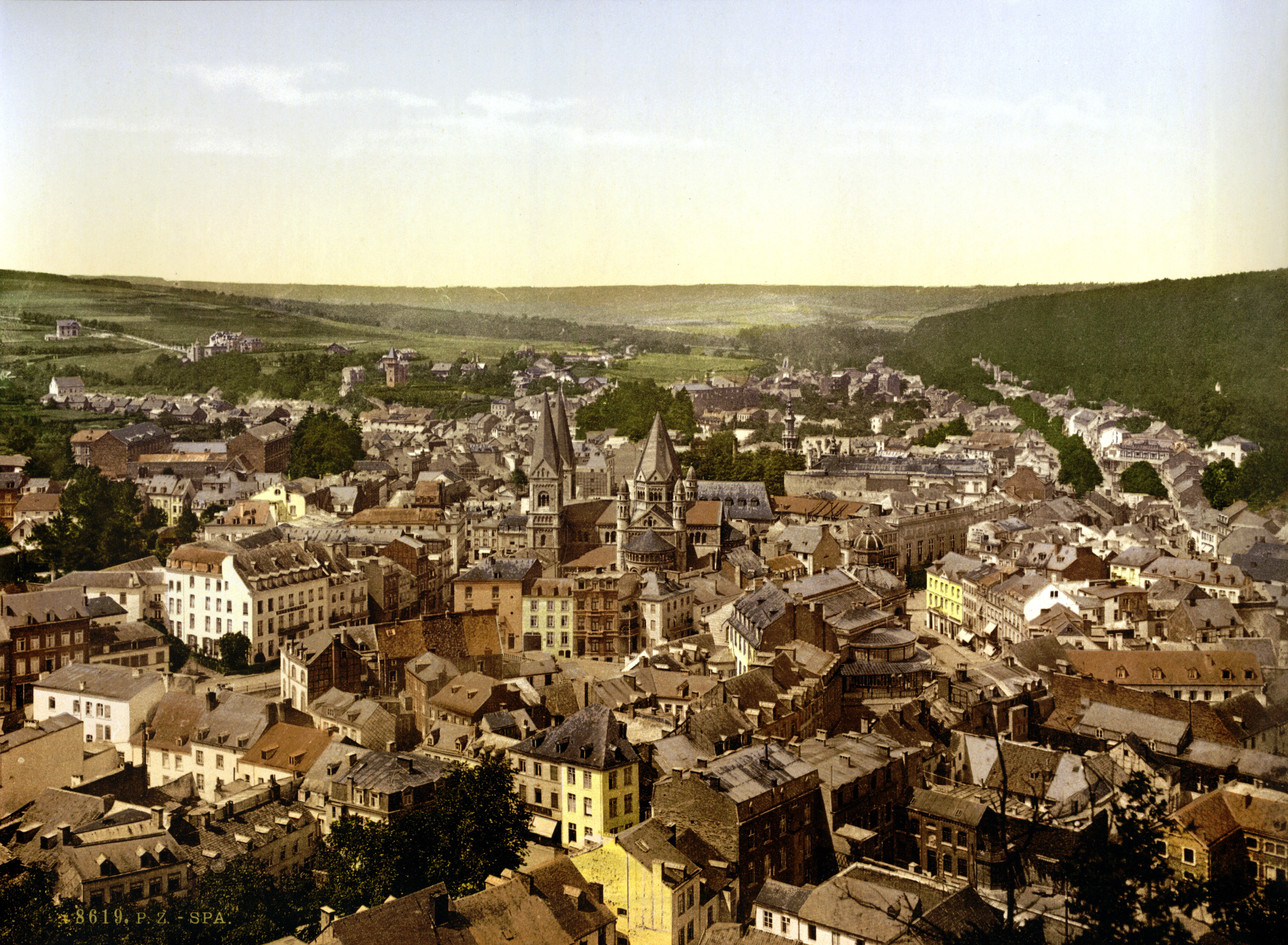 8619 P.Z. Spa. Photochrom print by Photoglob Zürich, between 1890 and 1900. From the Photochrom Prints Collection at the Library of Congress More photochroms from Belgium | More photochrom prints [PD] This picture is in the public domain